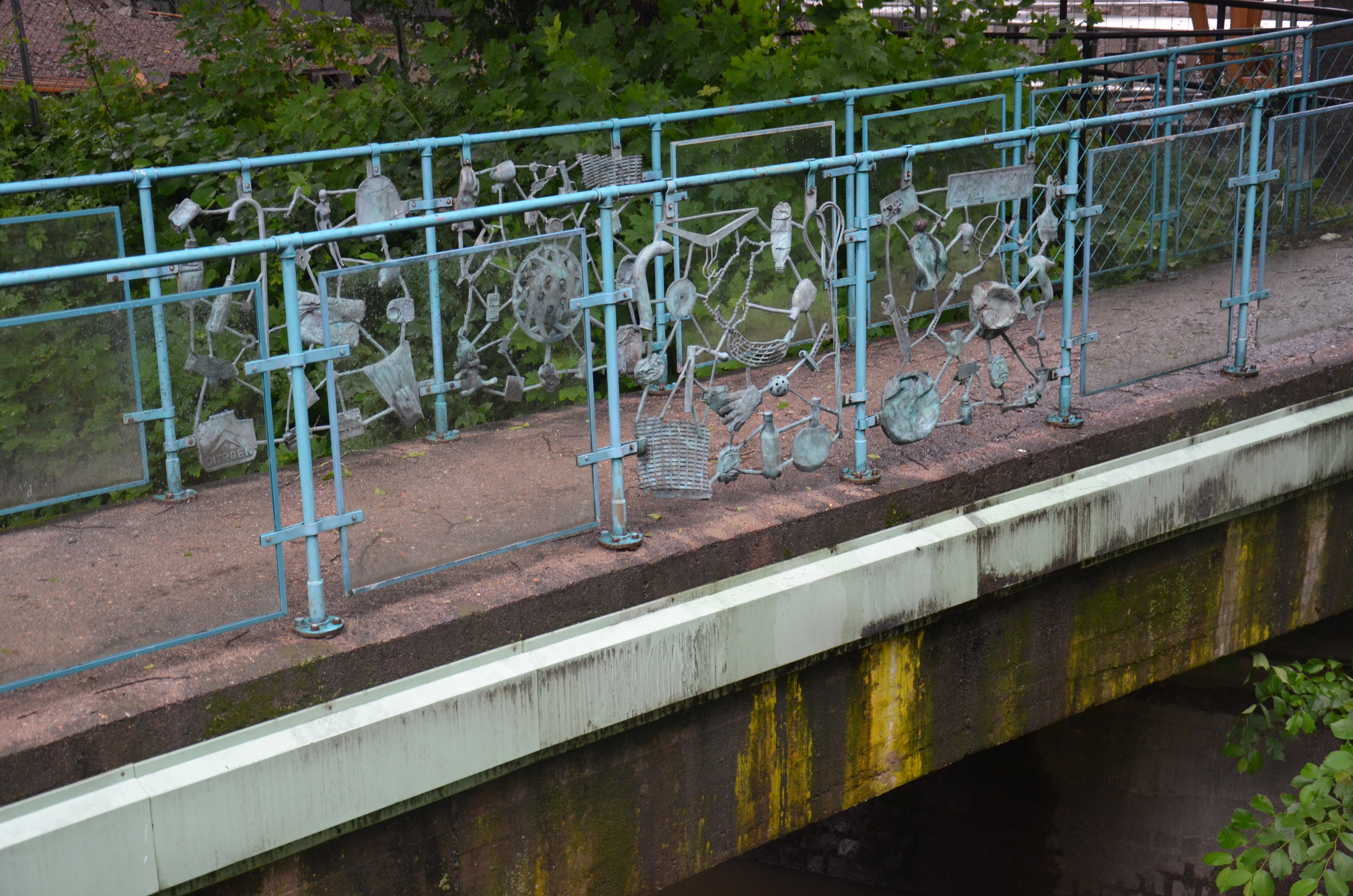 Ann Sidén´s Bridge, bronze, Lilla Å-promenaden, Örebro